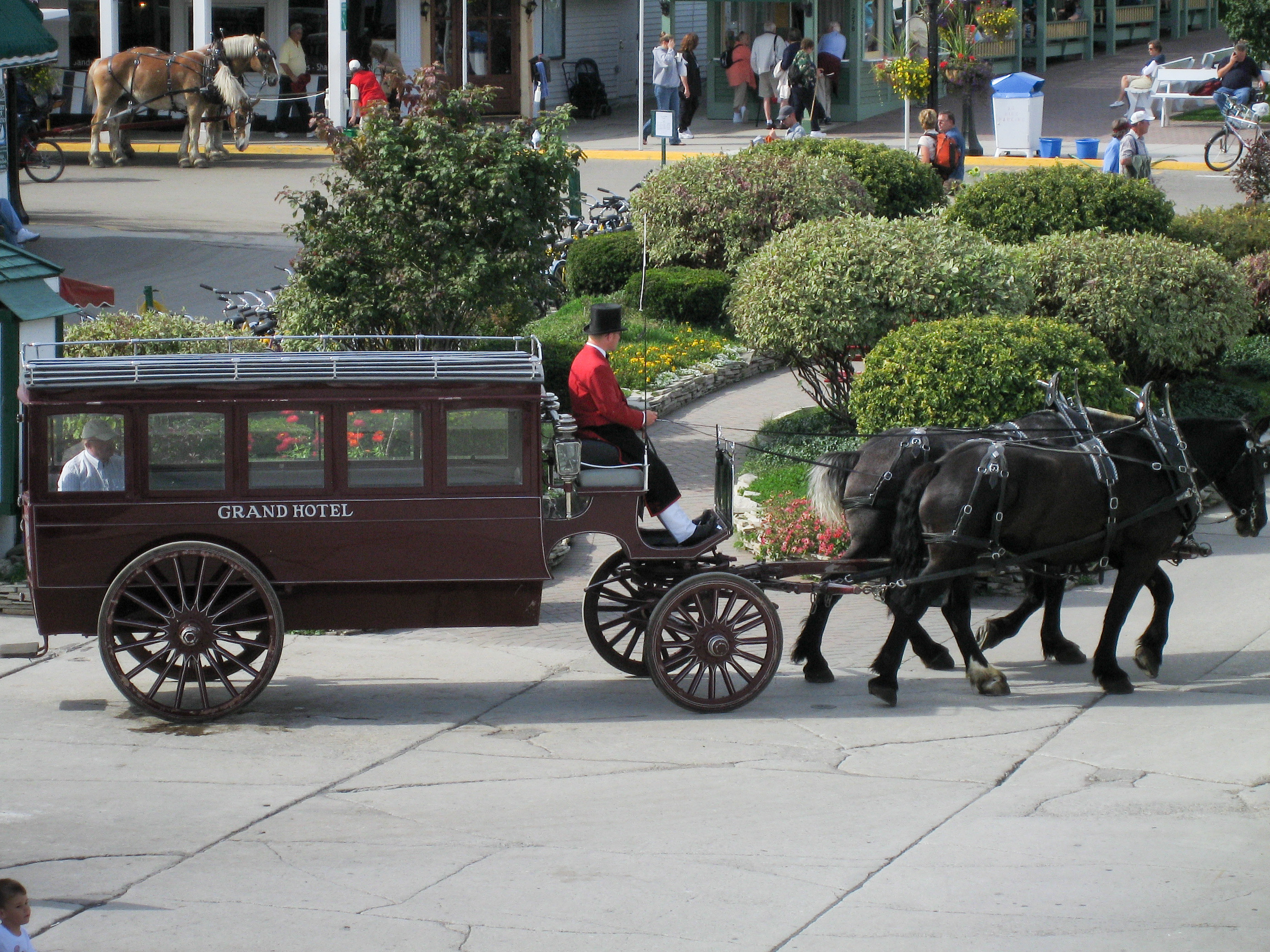 A horse-drawn carriage of the Grand Hotel at the ferry landing on Mackinac Island, Michigan.